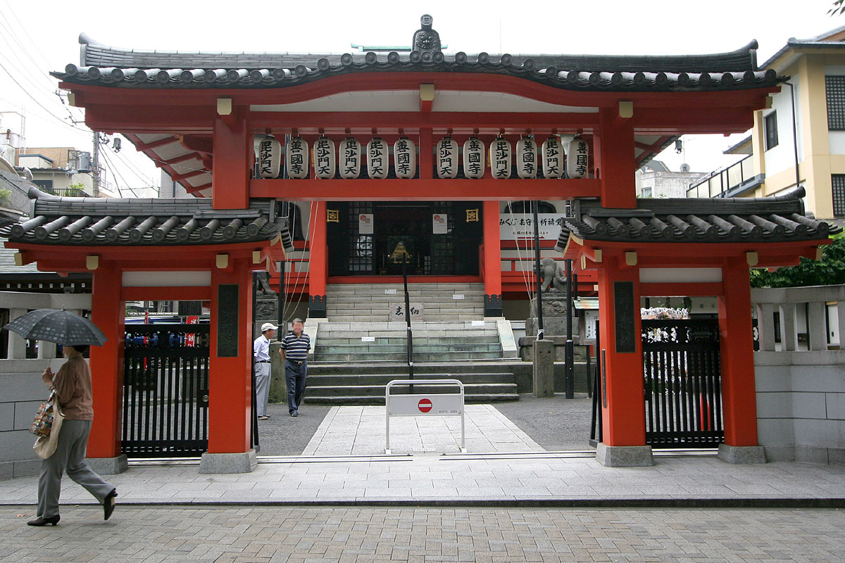 Entrance to the Zenkokuji temple